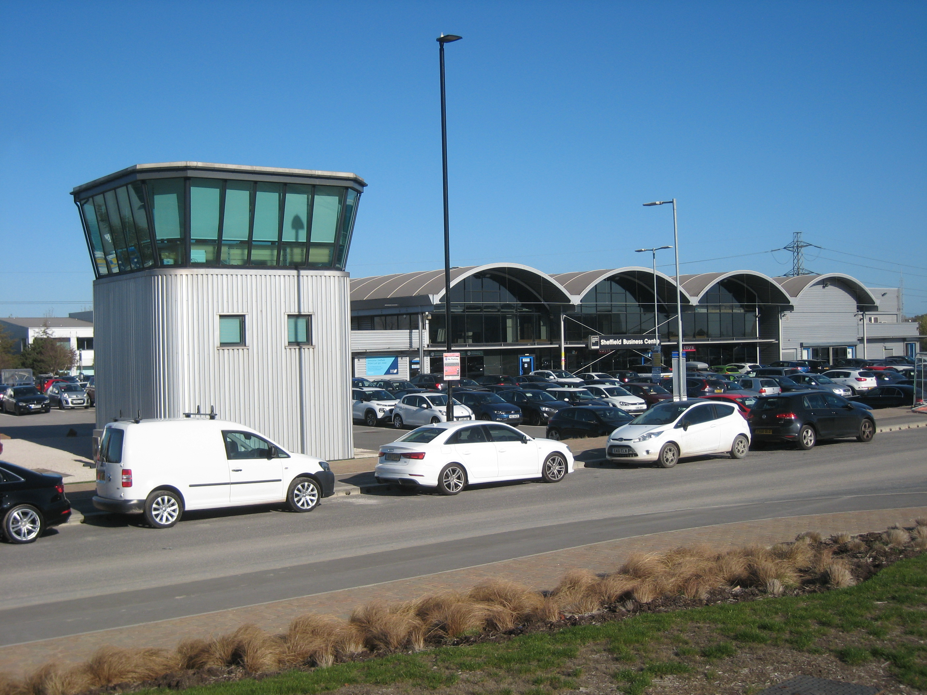 Sheffield Business Centre, Sheffield Business Park, Europa Link, Sheffield S9 1XZ. In the foreground is the former control tower of Sheffield City Airport which formerly occupied this site.